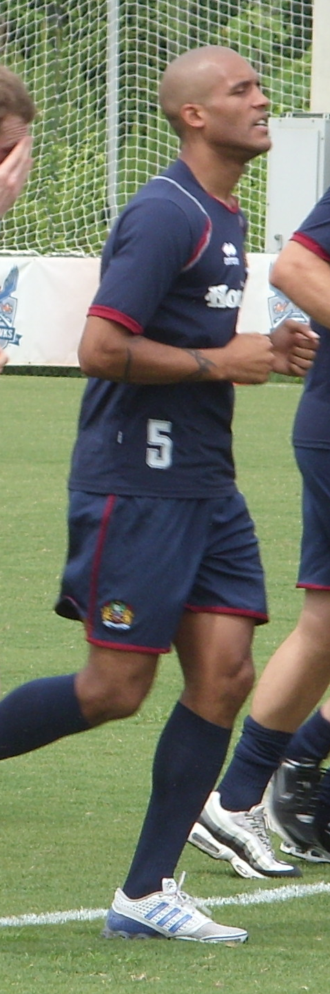 Clarke Carlisle. Image cropped from original at flickr.